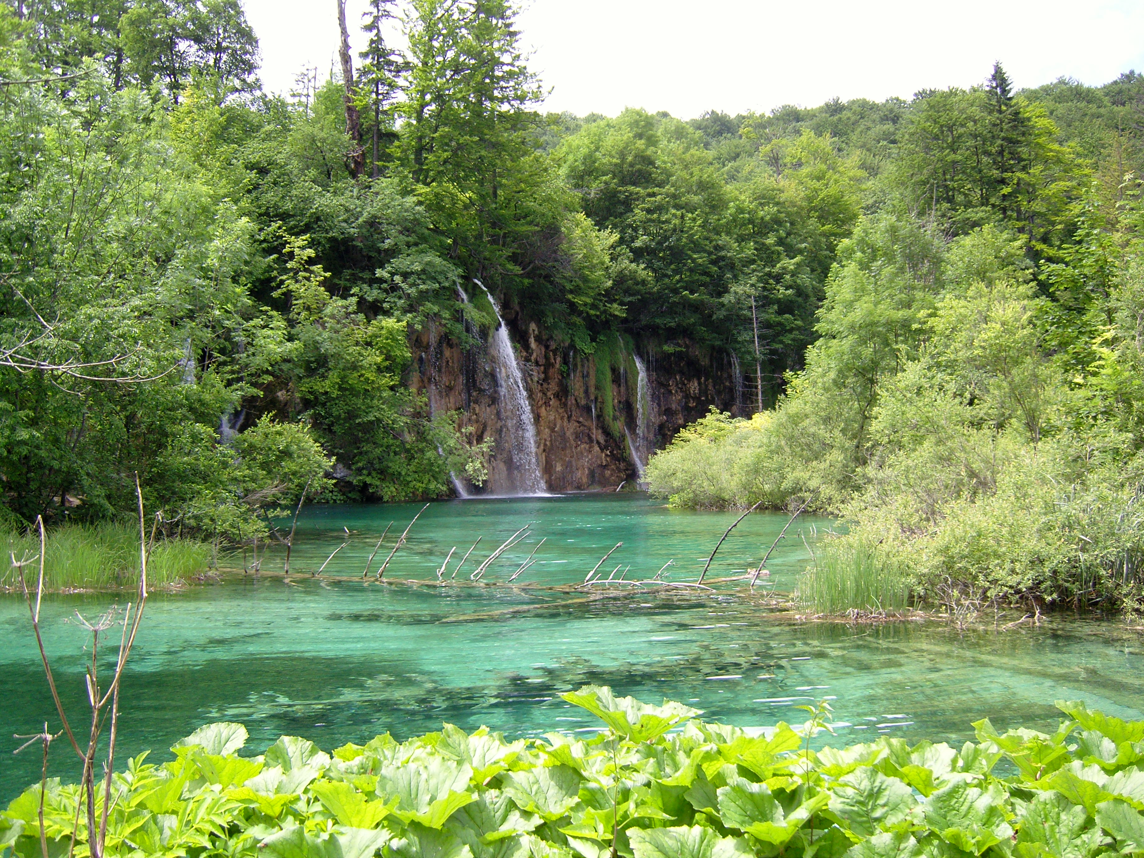 Picture of Plivice lakes in Croatia.